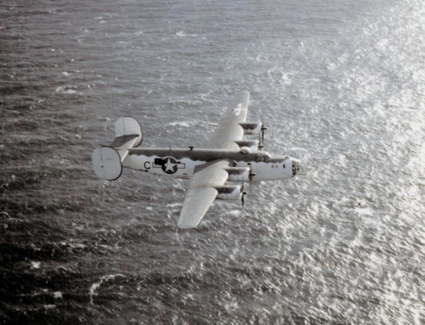 A Consolidated PB4Y-1 Liberator of bombing squadron VB-103 on patrol over the English coast, July-August 1943. VPB-103 was based at St. Eval (United Kingdom) at that time.